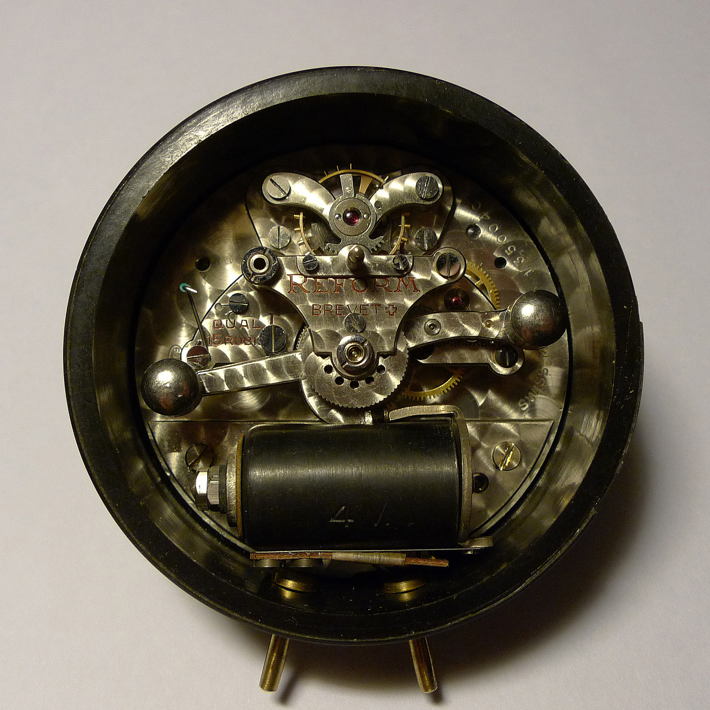 Reform Brevet solenoid actuated self-winding clock movement, made in Switzerland.